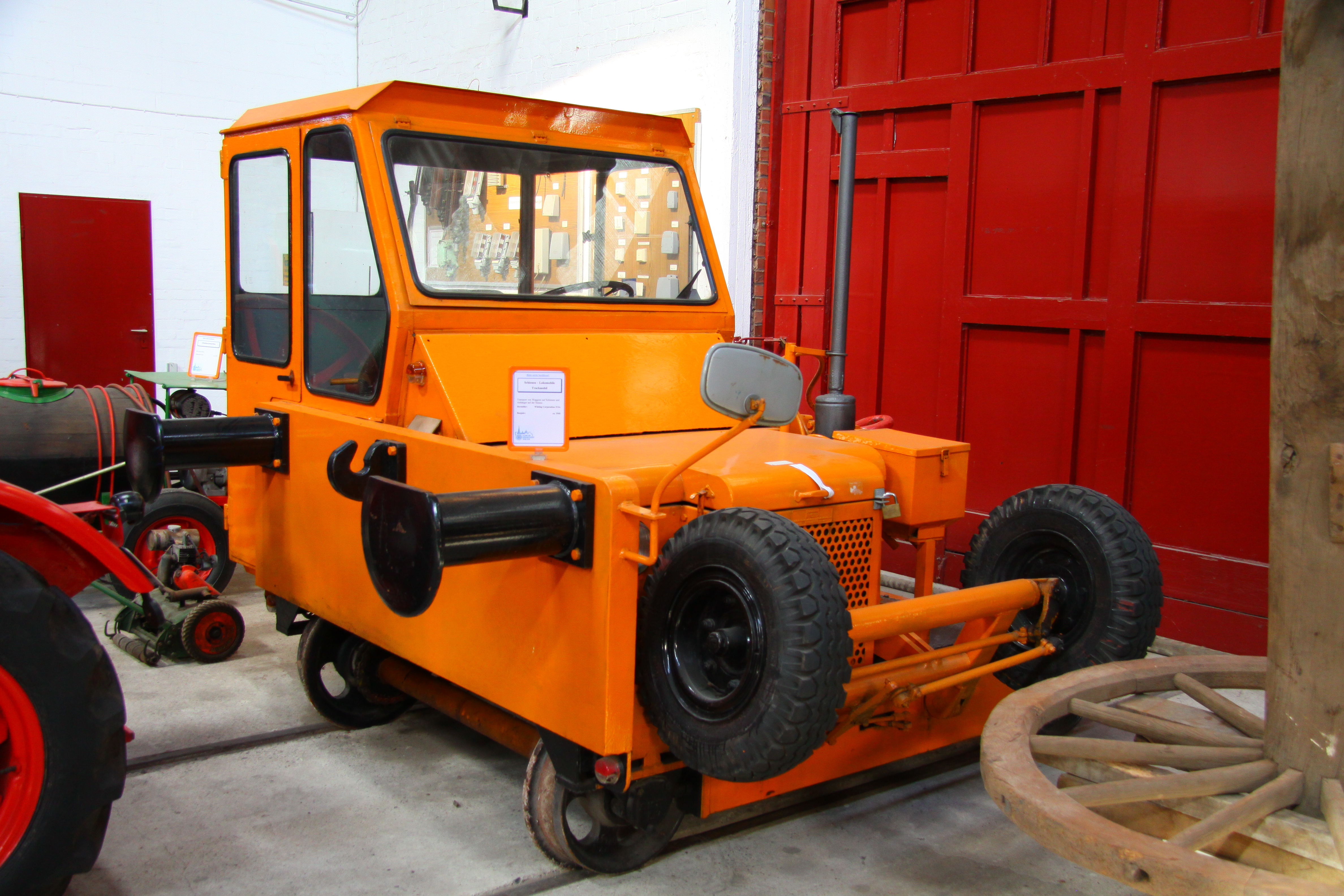 Whiting Corp. Trackmobile (around 1960) in the TuVM Stade